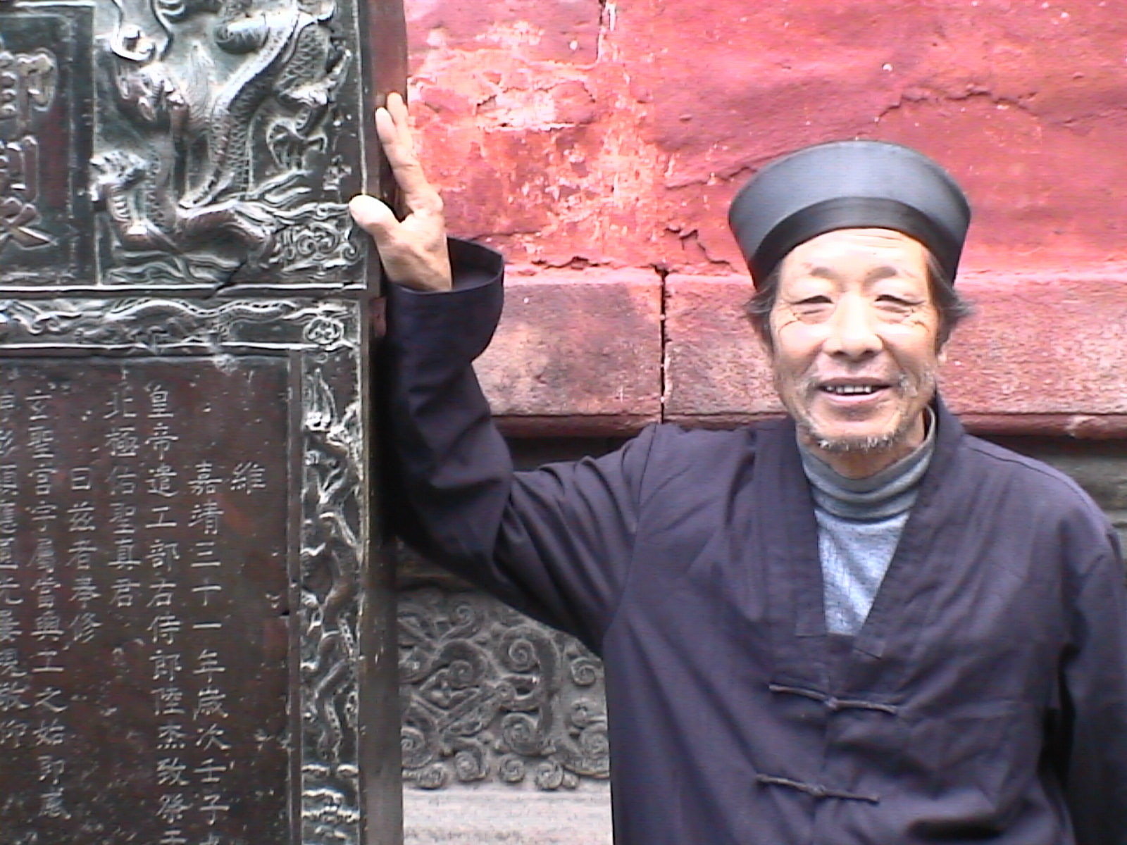 I took this image with the fellows permission. We were at the top most temple of the Wudang area called "Golden Top". Chris Bacigalupo August 25th 2005